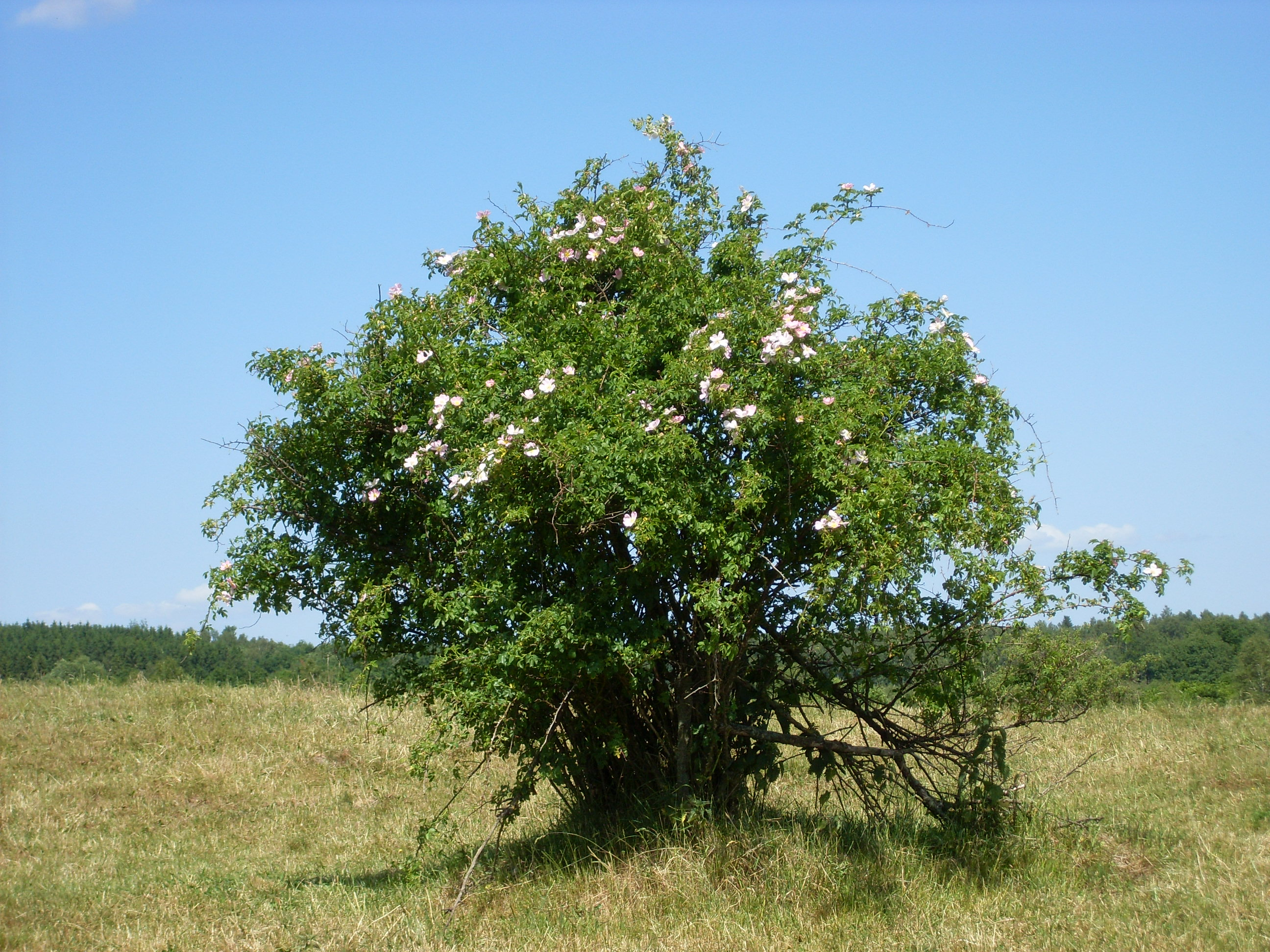 Rosa dumalis, picture taken i south Sweden